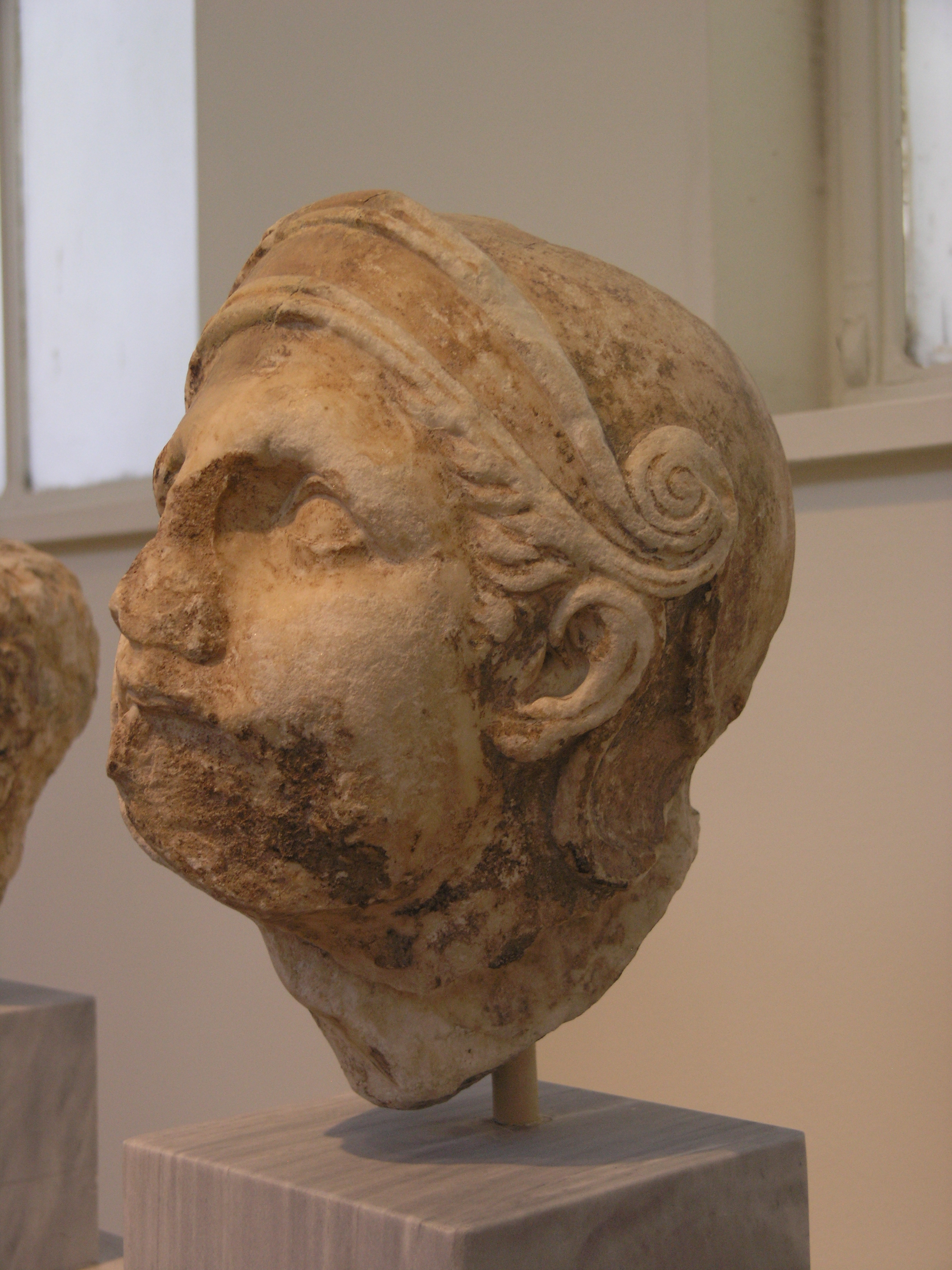 Found in the Athena Alea temple in Tegea. From the West pediment bearing a scene of the Trojan War. left side